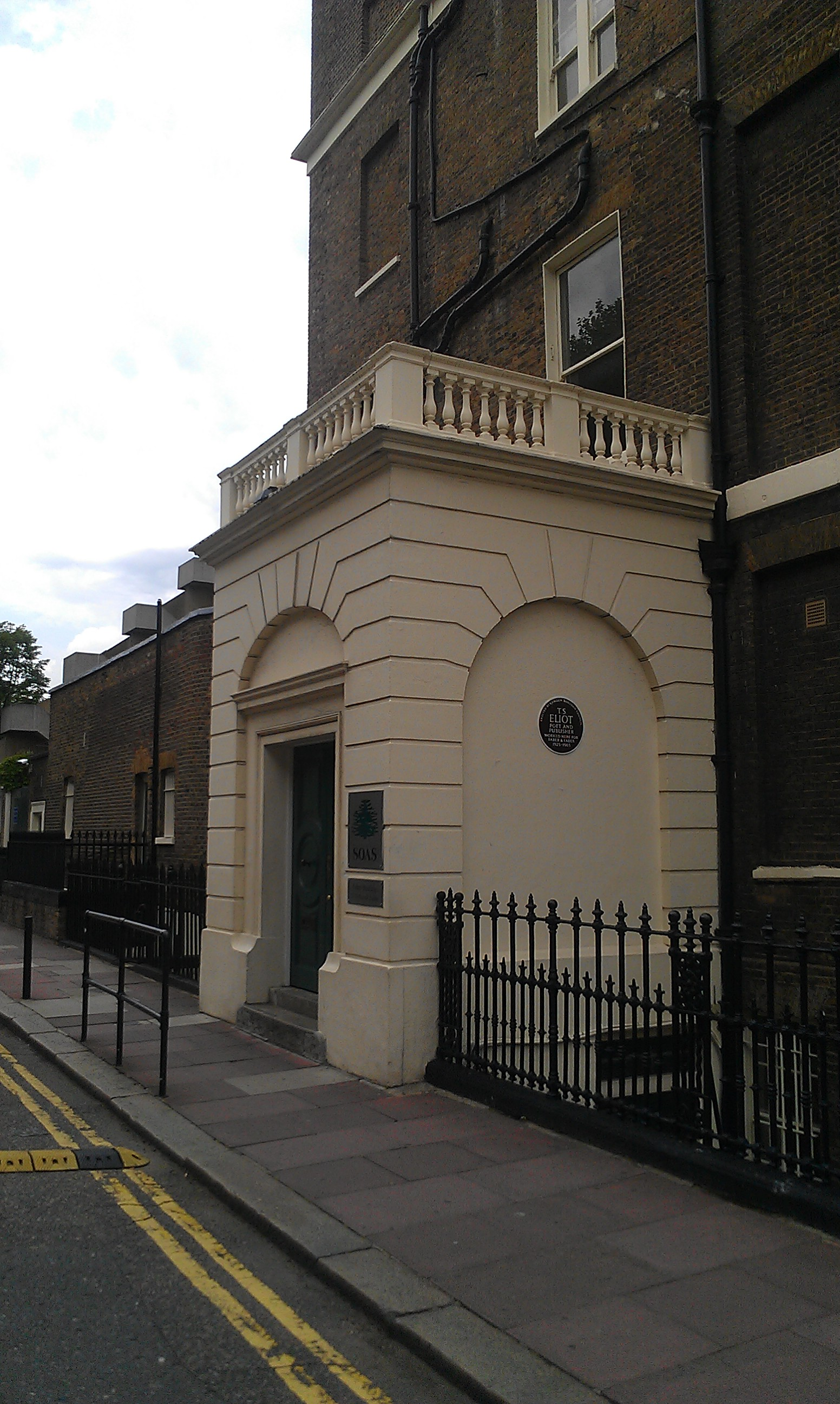 The Faber Building, 24 Russell Square, Bloomsbury, Central London, where T.S. Eliot worked; now controlled by SOAS. Summer 2012.